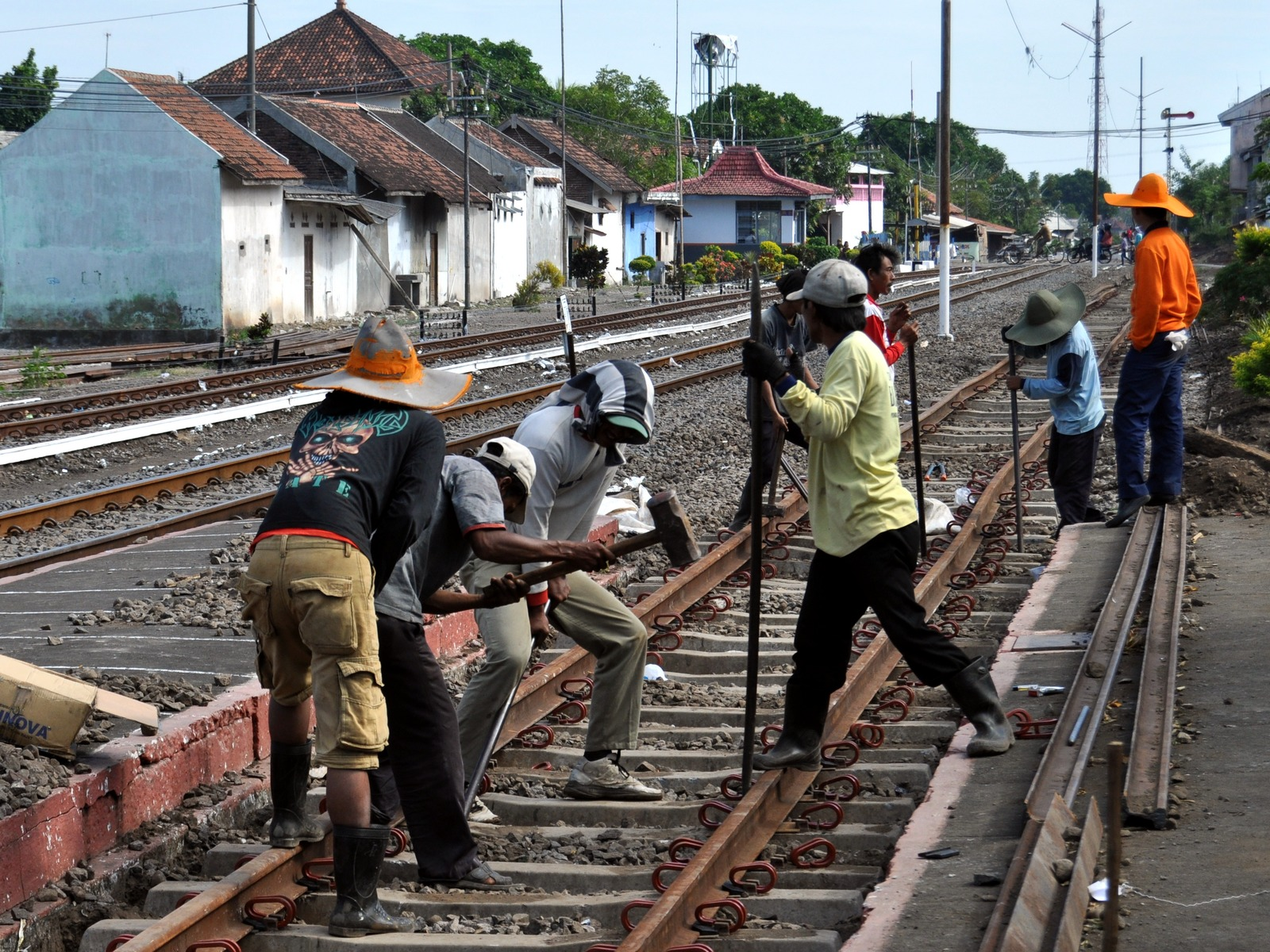 Leces train station in Probolinggo Regency, East Java, Indonesia. Workers fastening the rail.